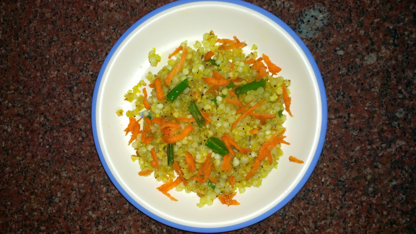 sabudana kichdi